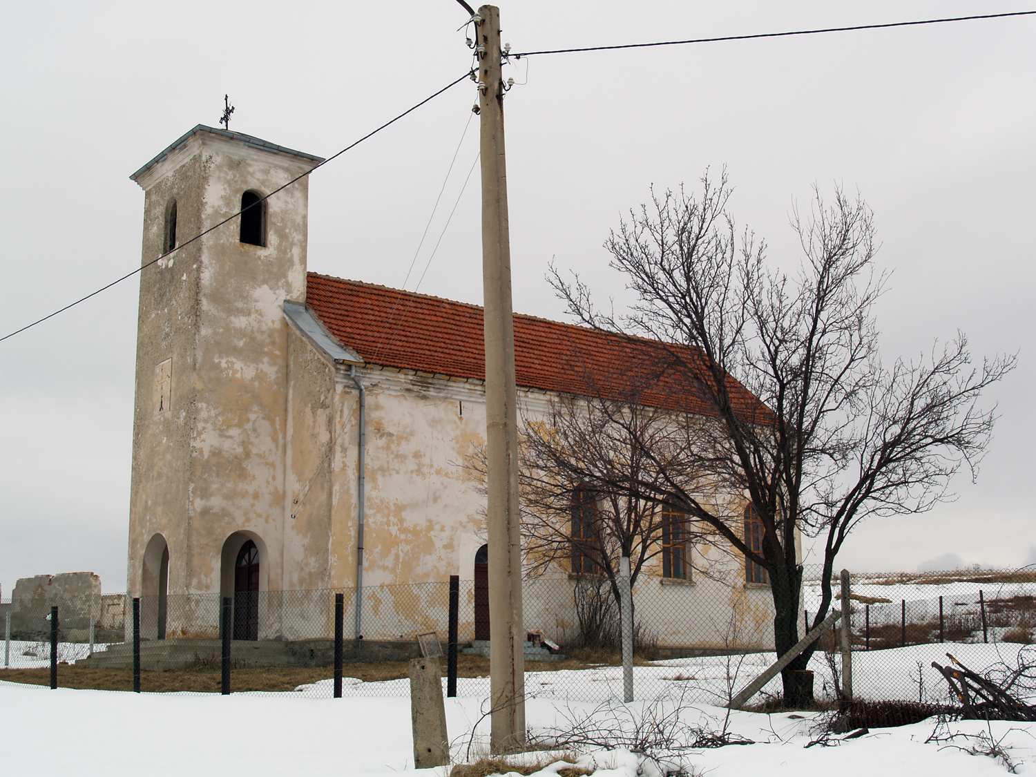 Plana Church